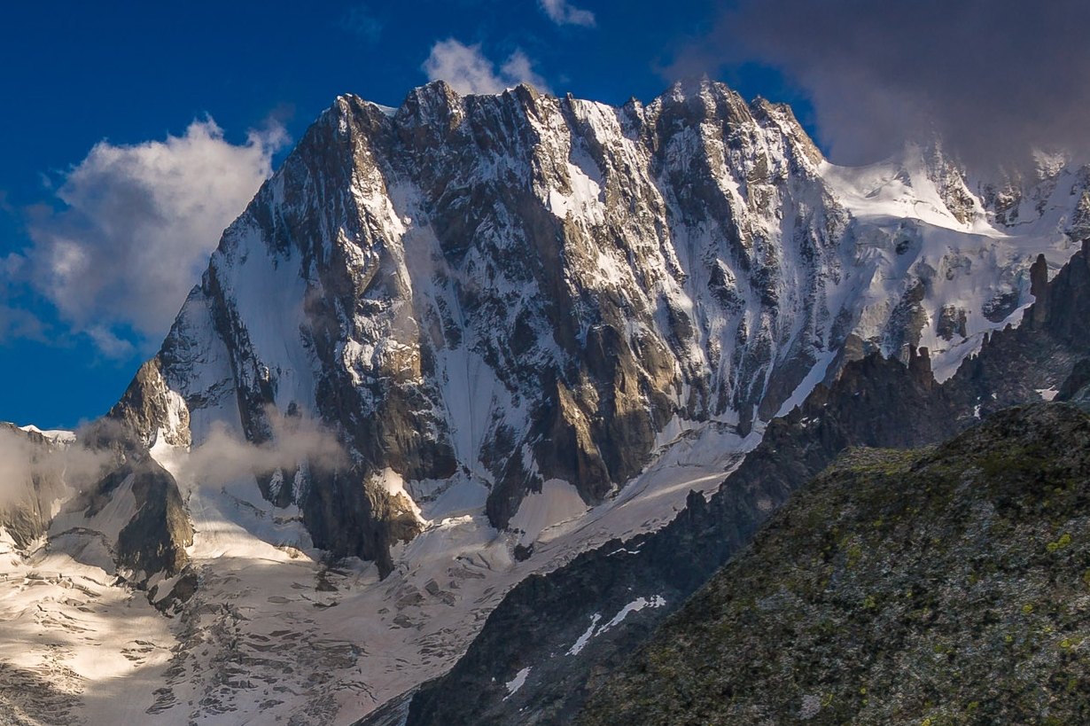 The north face of the Grandes Jorasses